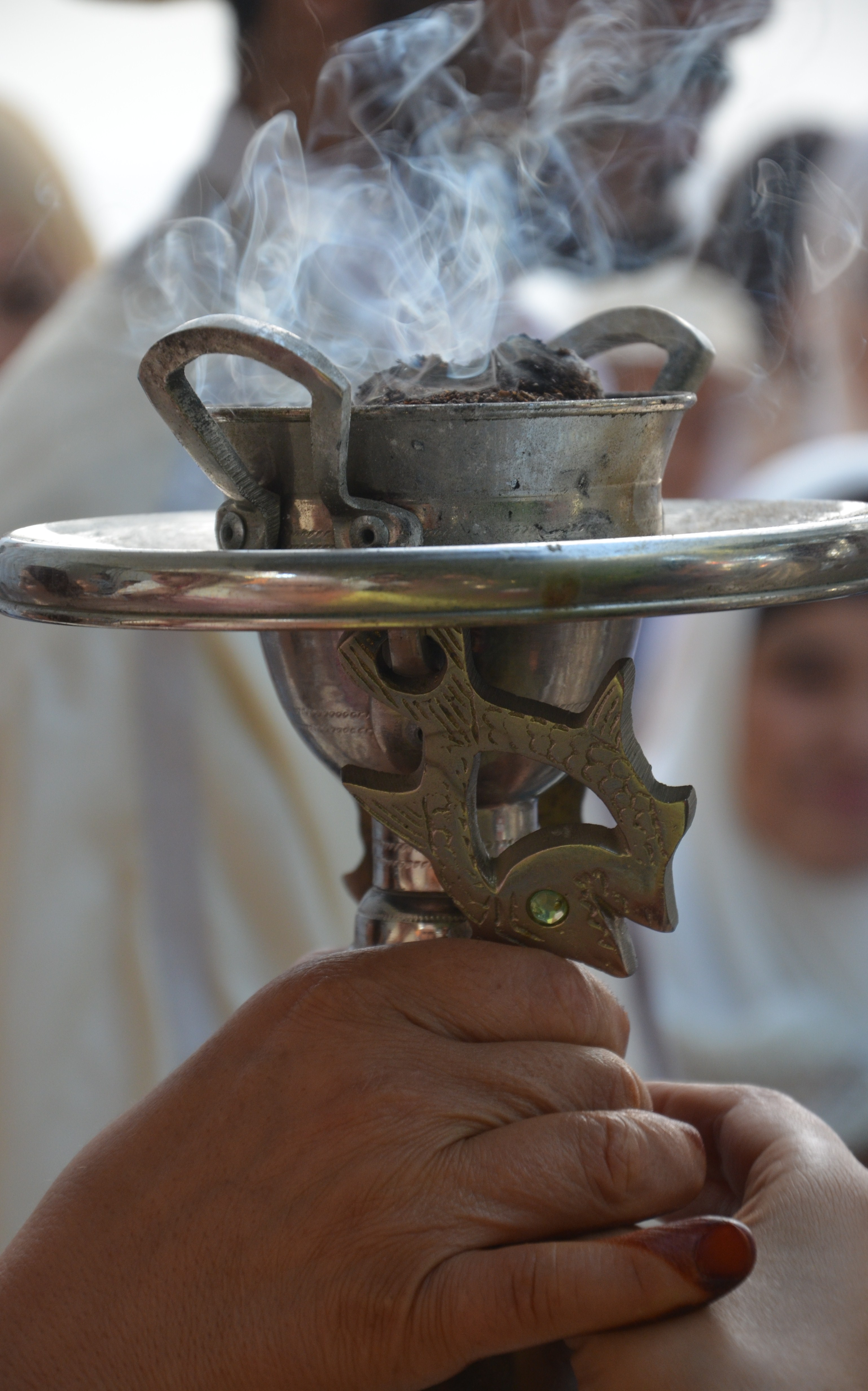 Bukhoor